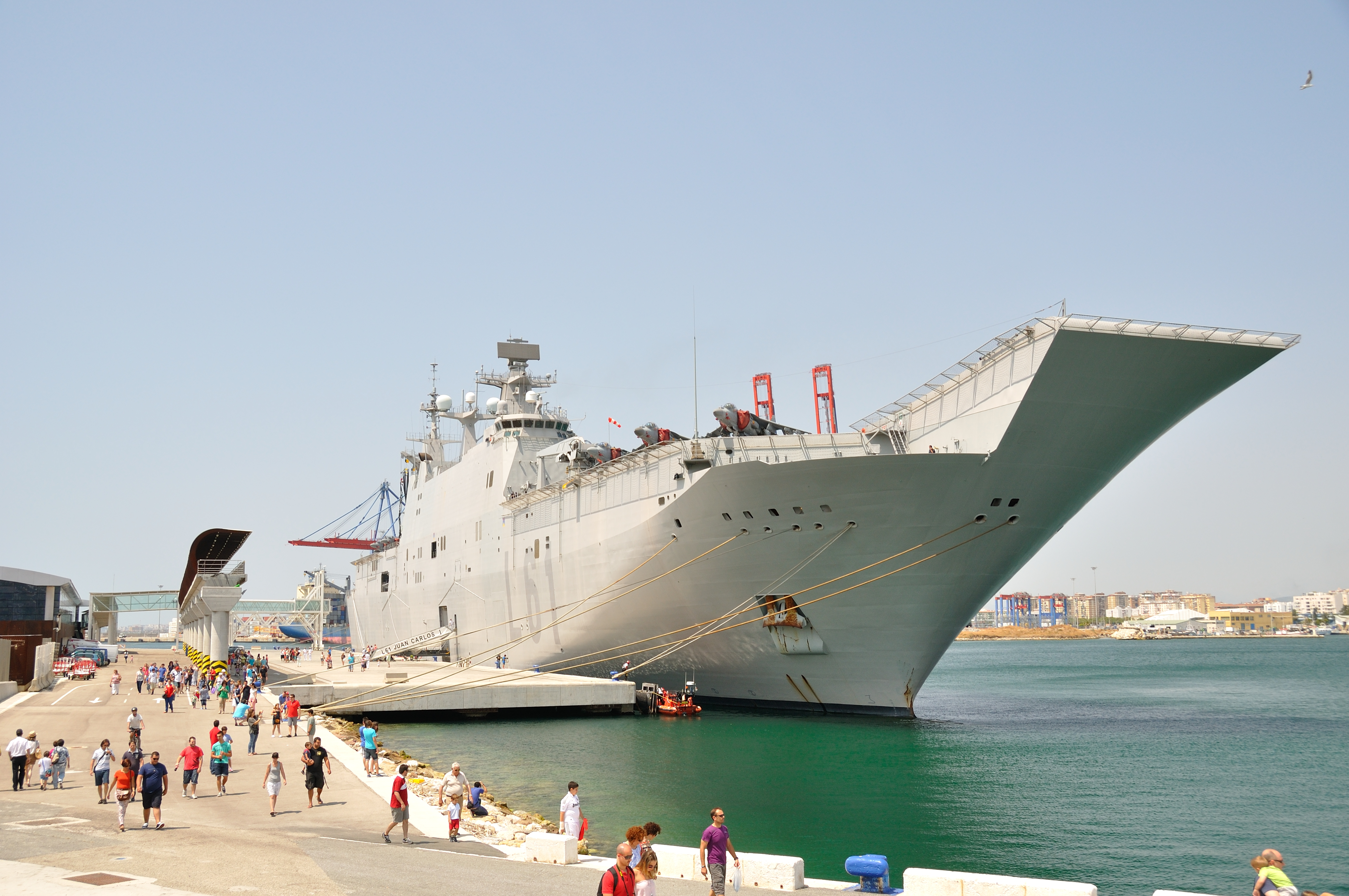 LHD Juan Carlos I in Málaga, Andalusia, Spain.